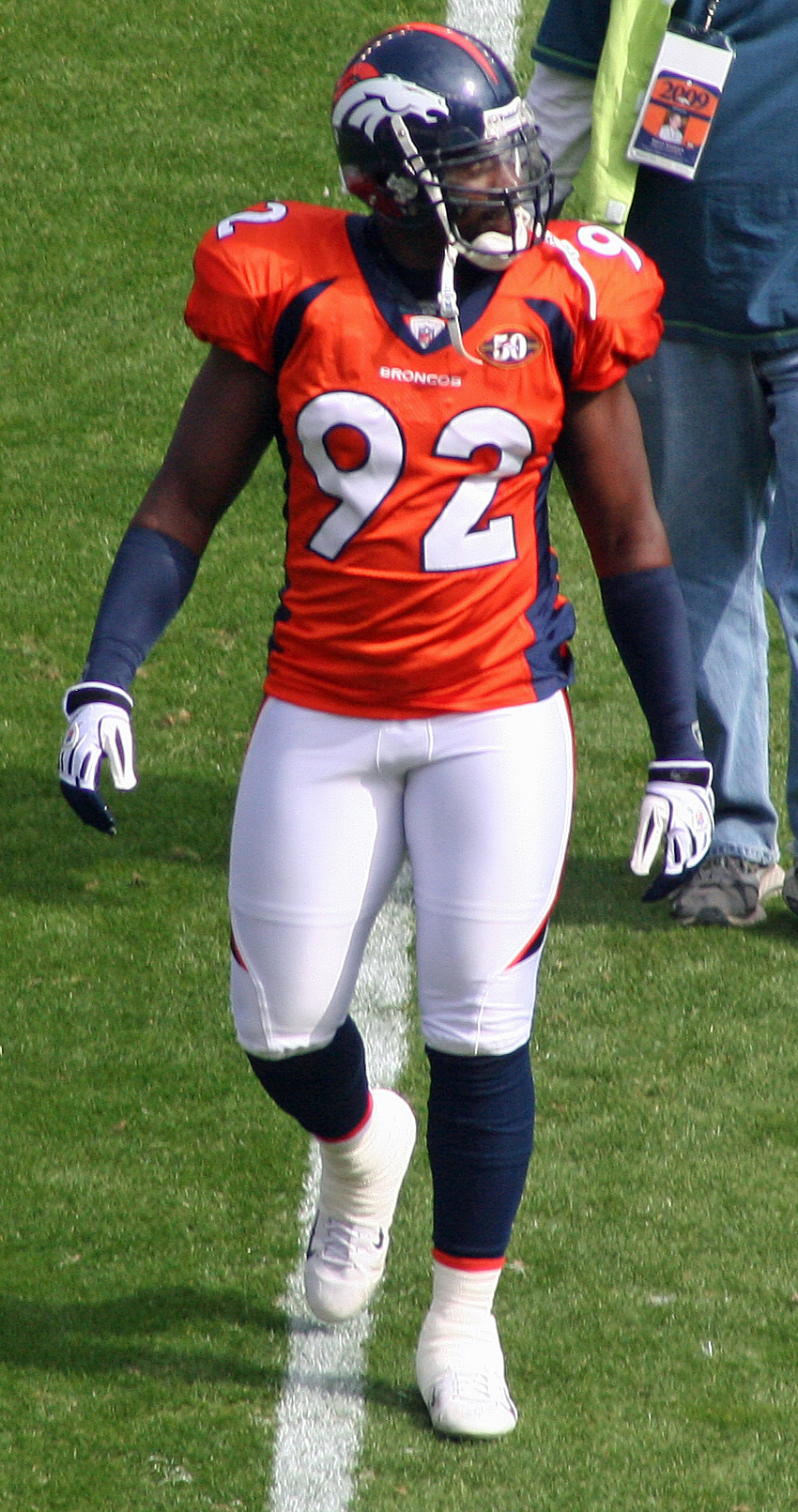 Elvis Dumervil, a player with the Denver Broncos American football team.